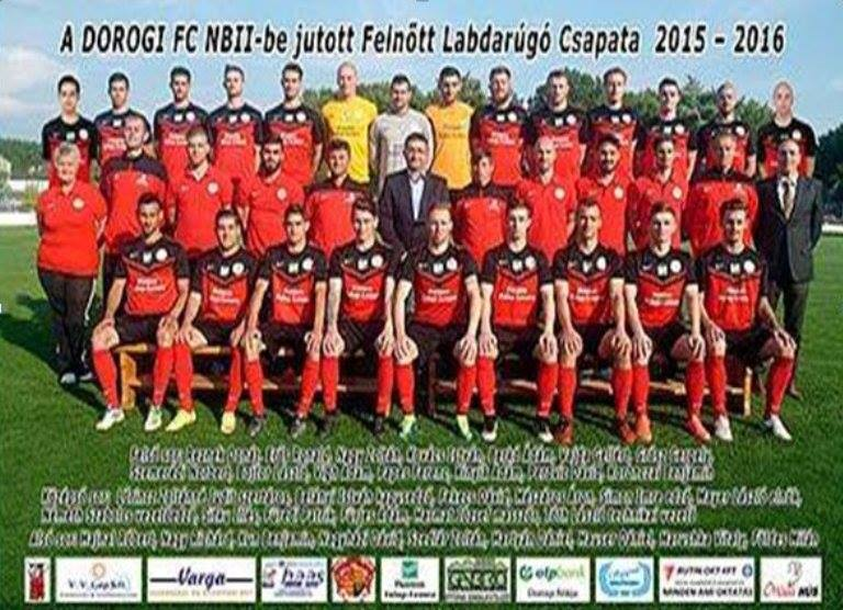 The team became second class after 14 years (corrected version)